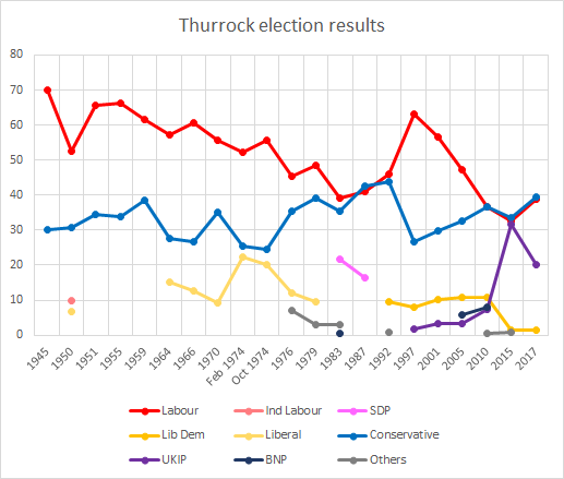 Thurrock election results